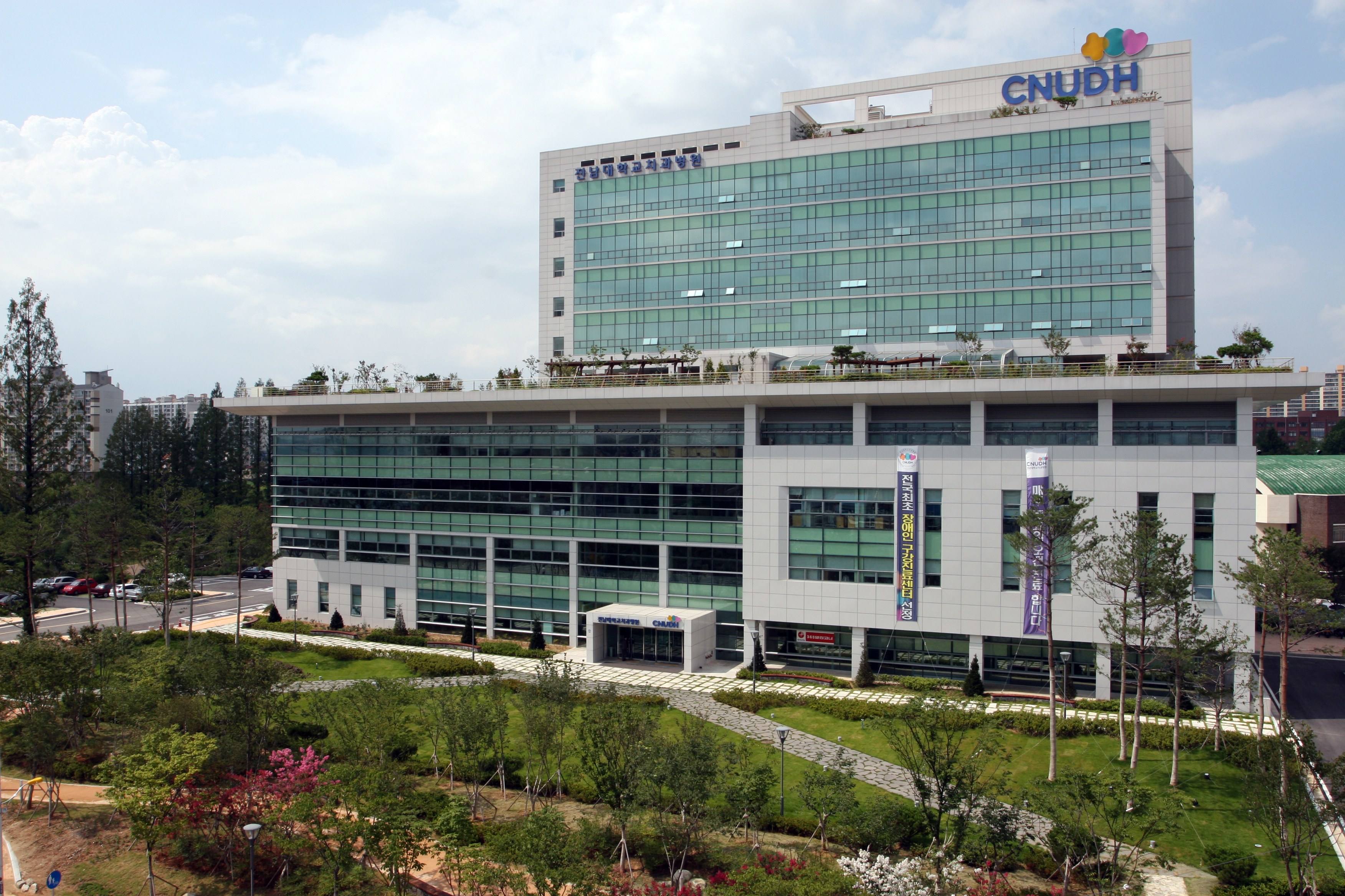 Chonnam National University Dental Hospital